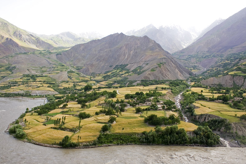 View of Jamarch-i bala the Maimay county in darwaz of Badakhshan province